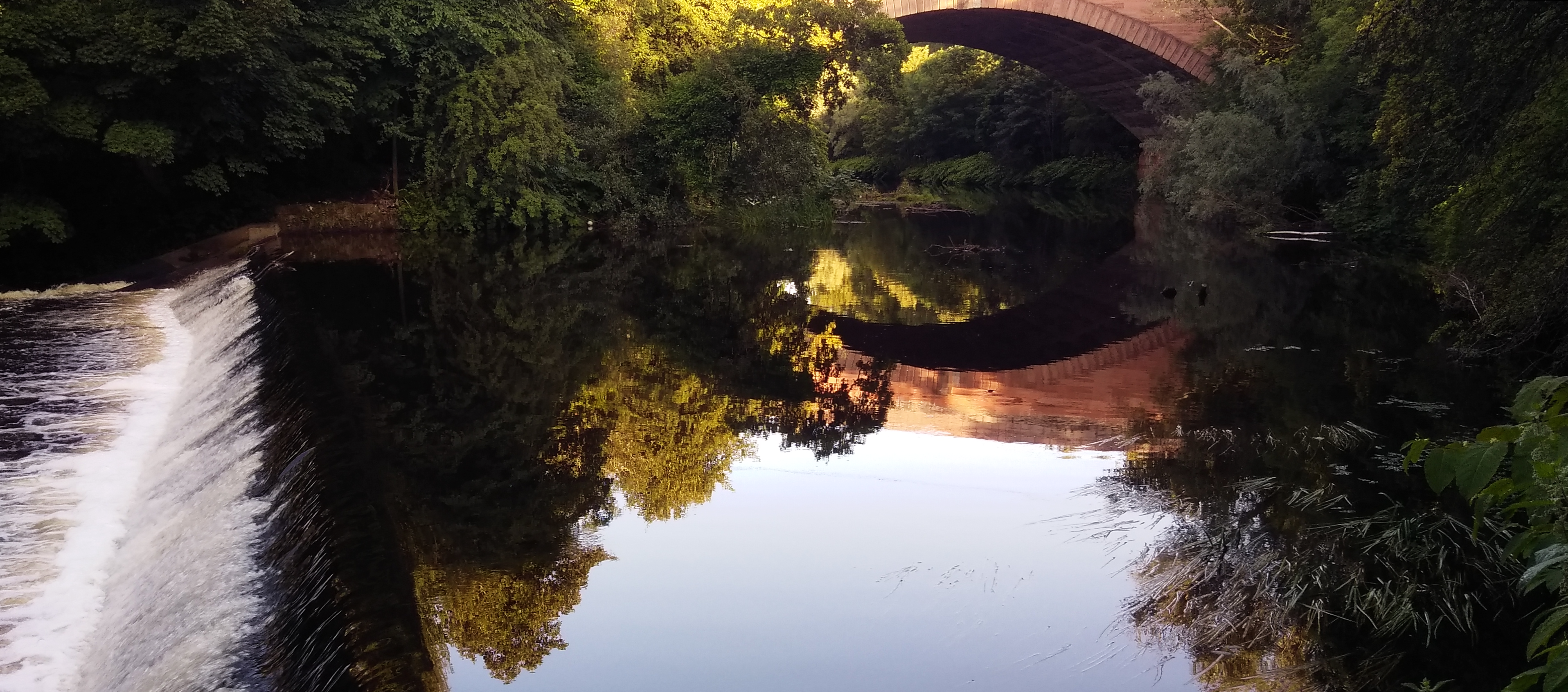 River Kelvin through the Kelvingrove Park (Glasgow, Scotland)